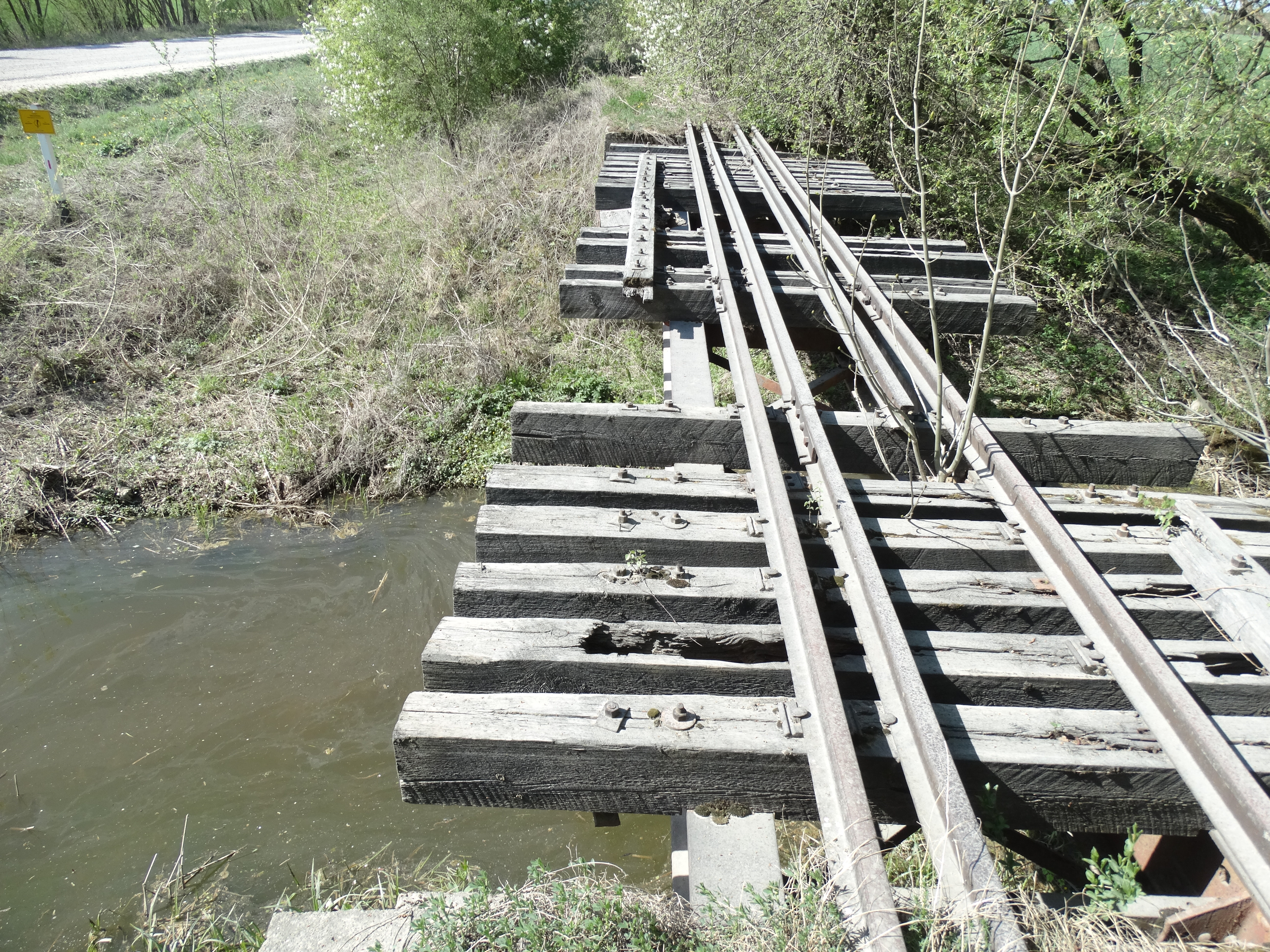 Former narrow gauge railway bridge, Pamūšis (Klovainiai), Pakruojis district, Lithuania